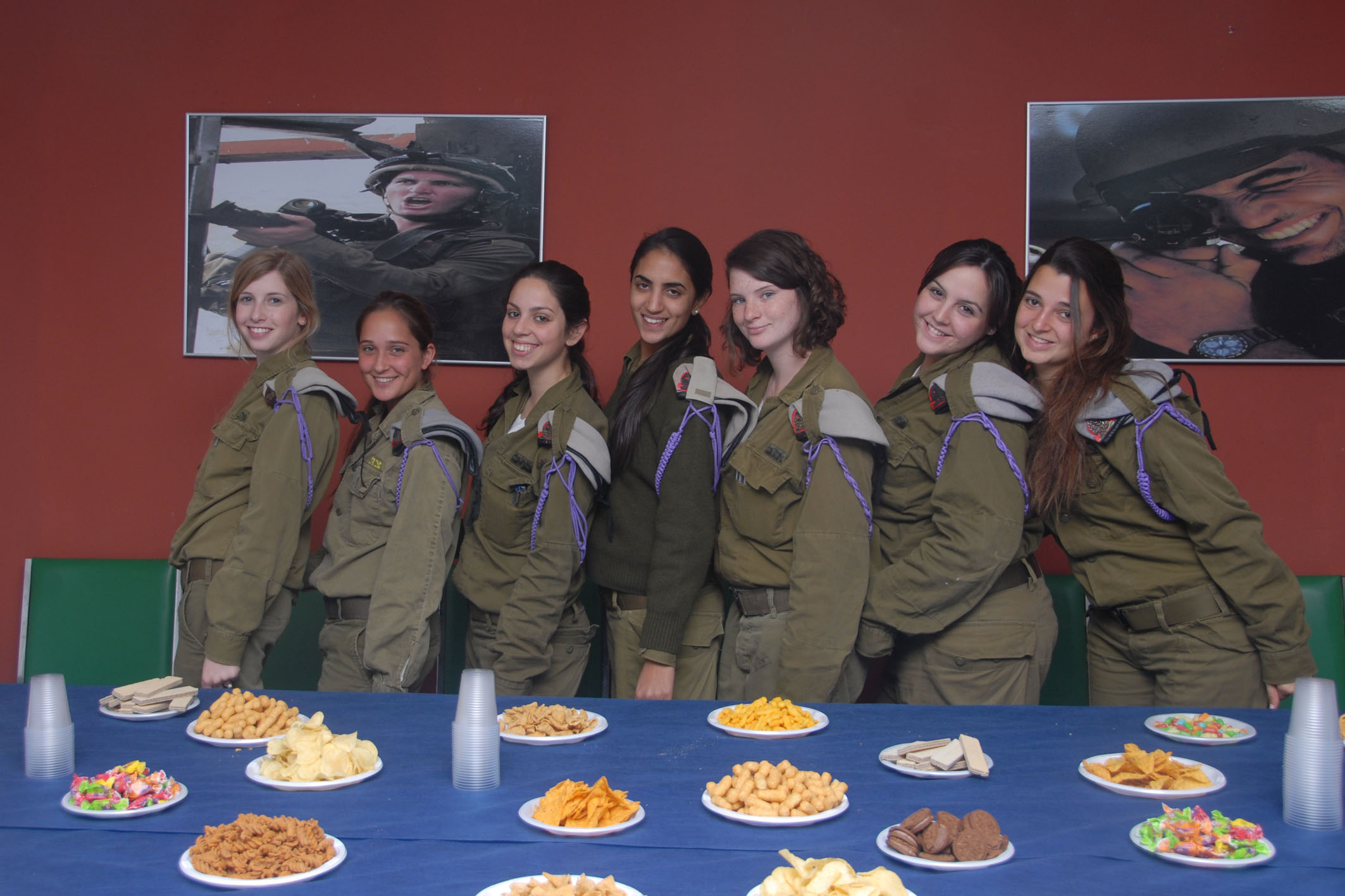 The Israel Defense Forces Facebook page The Israel Defense Forces [1] Follow us on Twitter